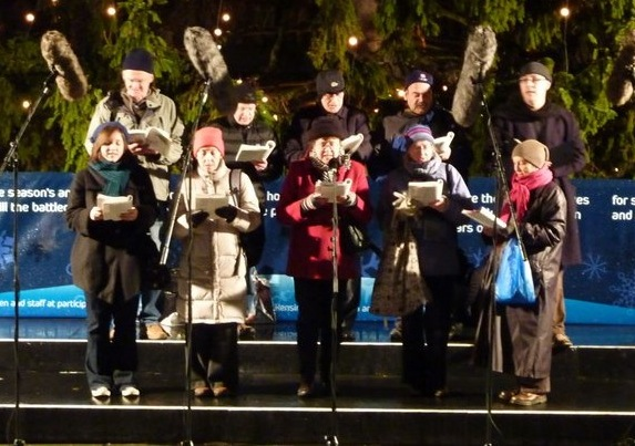 Thursday 16th December 2010